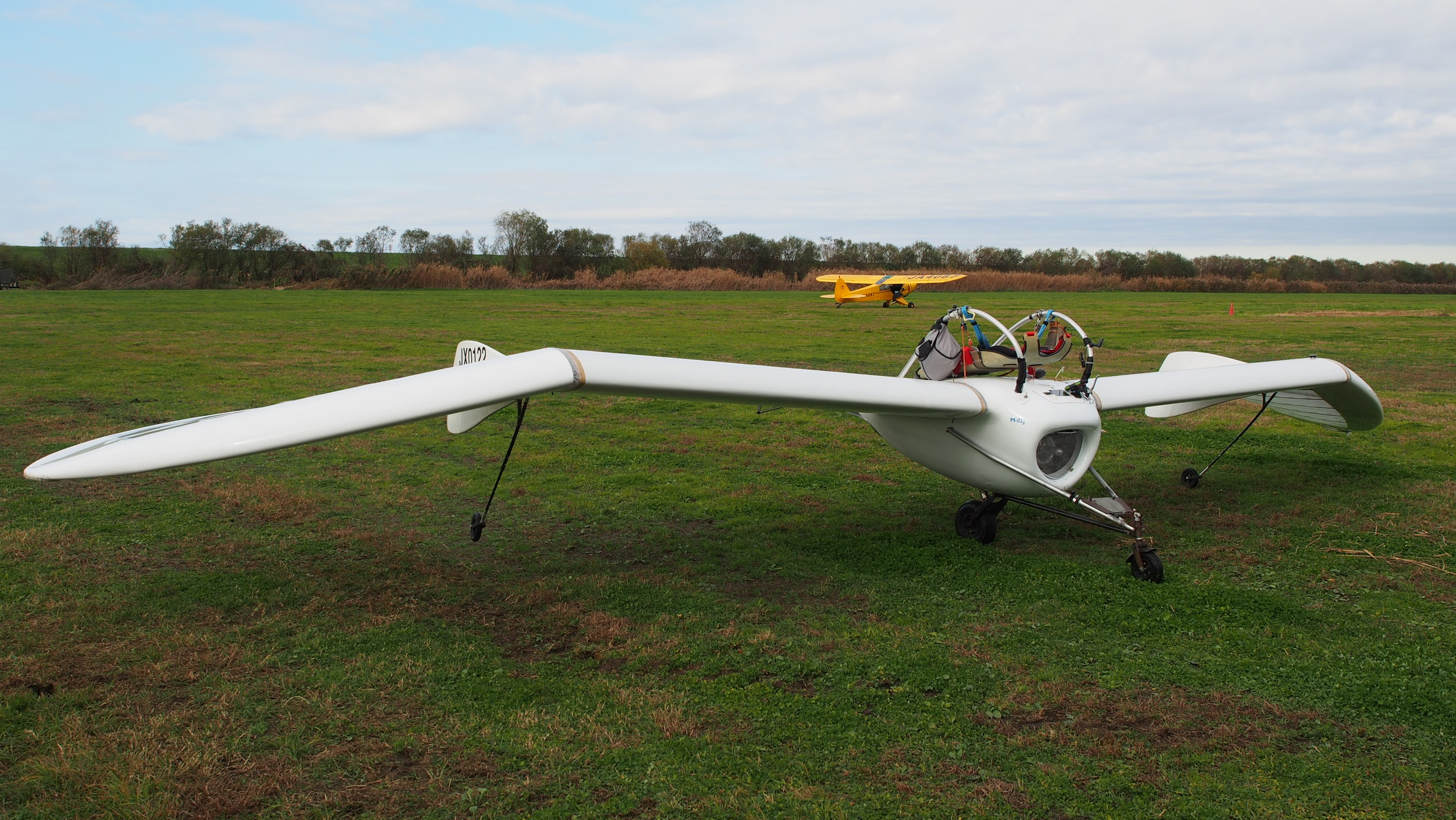 OpenSky M-02J after a test flight at Sekiyado Glider Field in Noda City, Chiba Prefecture, Japan, on December 8, 2018.